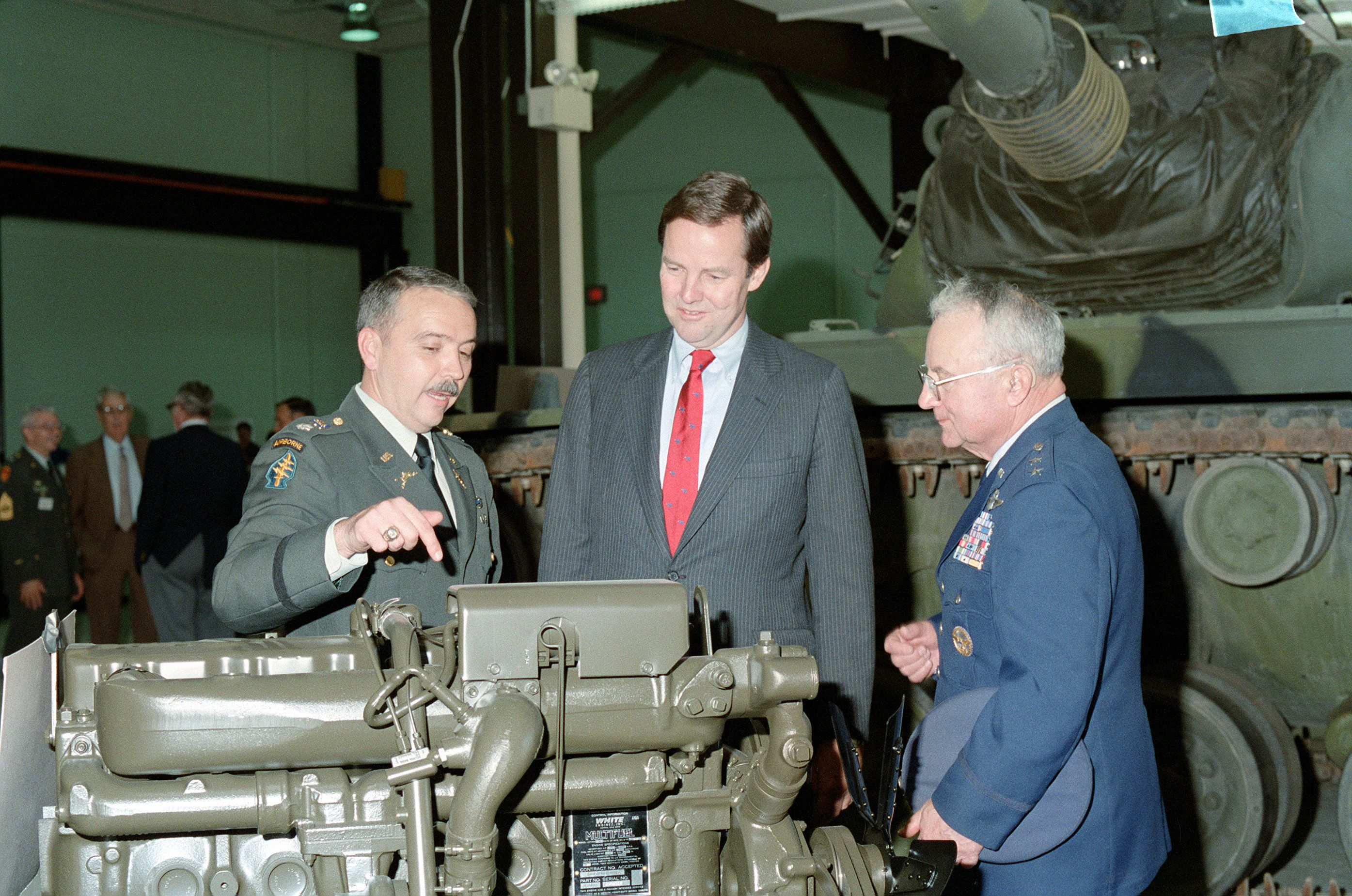 "Lieutenant Colonel Harper, left, points out a feature of a multifuel truck engine while talking to New Jersey Governor Thomas H. Kean, center, and Major General Francis R. Gerard, State Adjutant General, New Jersey National Guard, during the opening of the New Jersey National Guard High Technology Training Center. Location: FORT DIX, NEW JERSEY (NJ) UNITED STATES OF AMERICA (USA)"